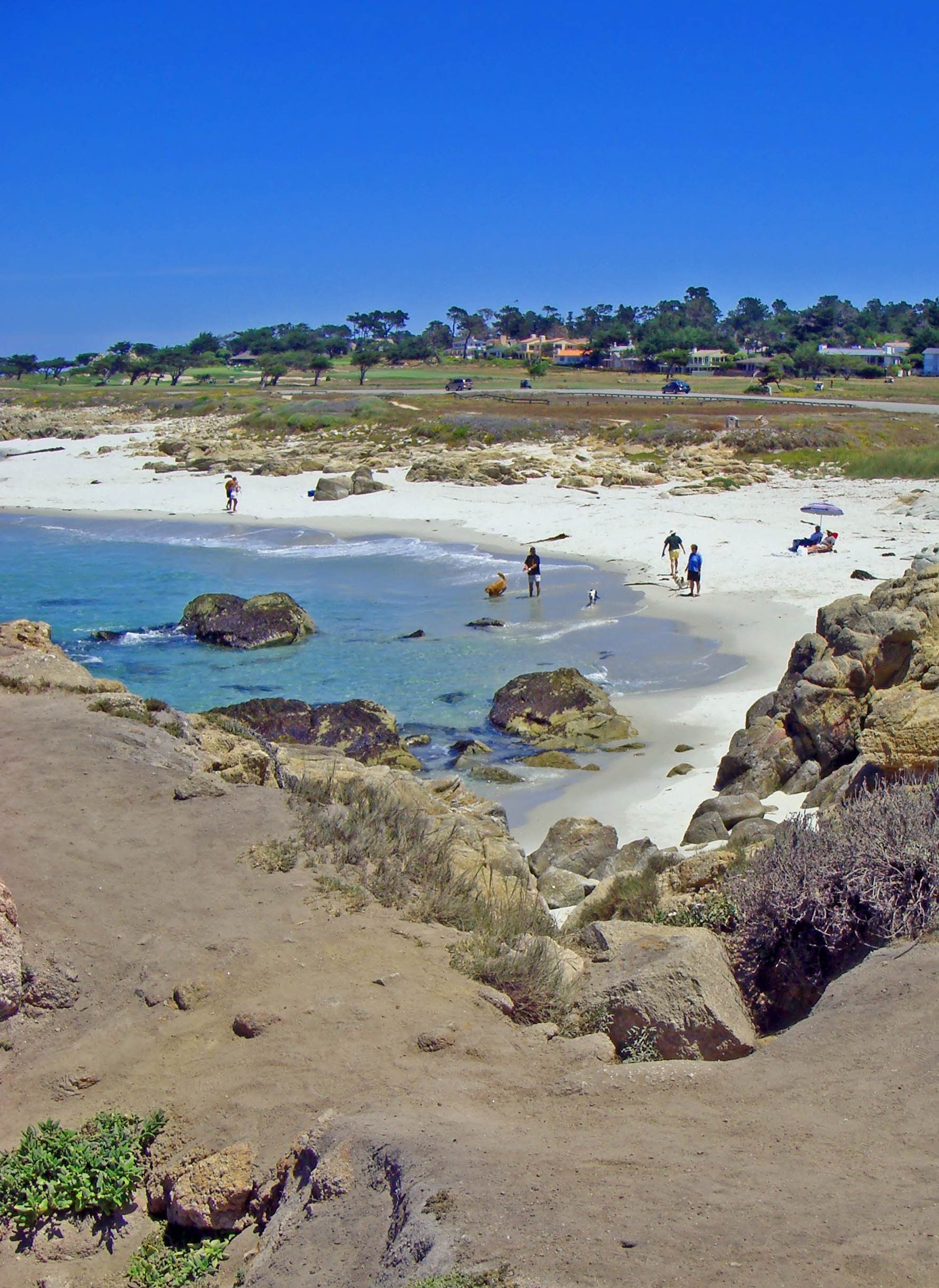 17 Mile Drive winds around the Pebble Beach golf course where a turn off allows visitors beach access.